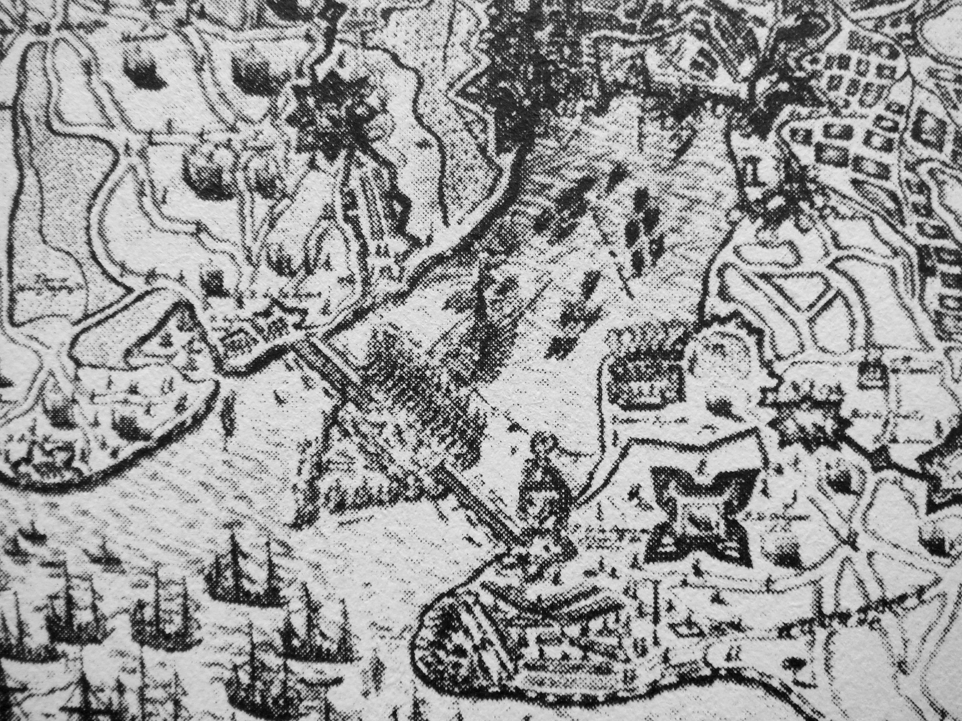 La_Rochelle_during_the_1628_siege_seawall